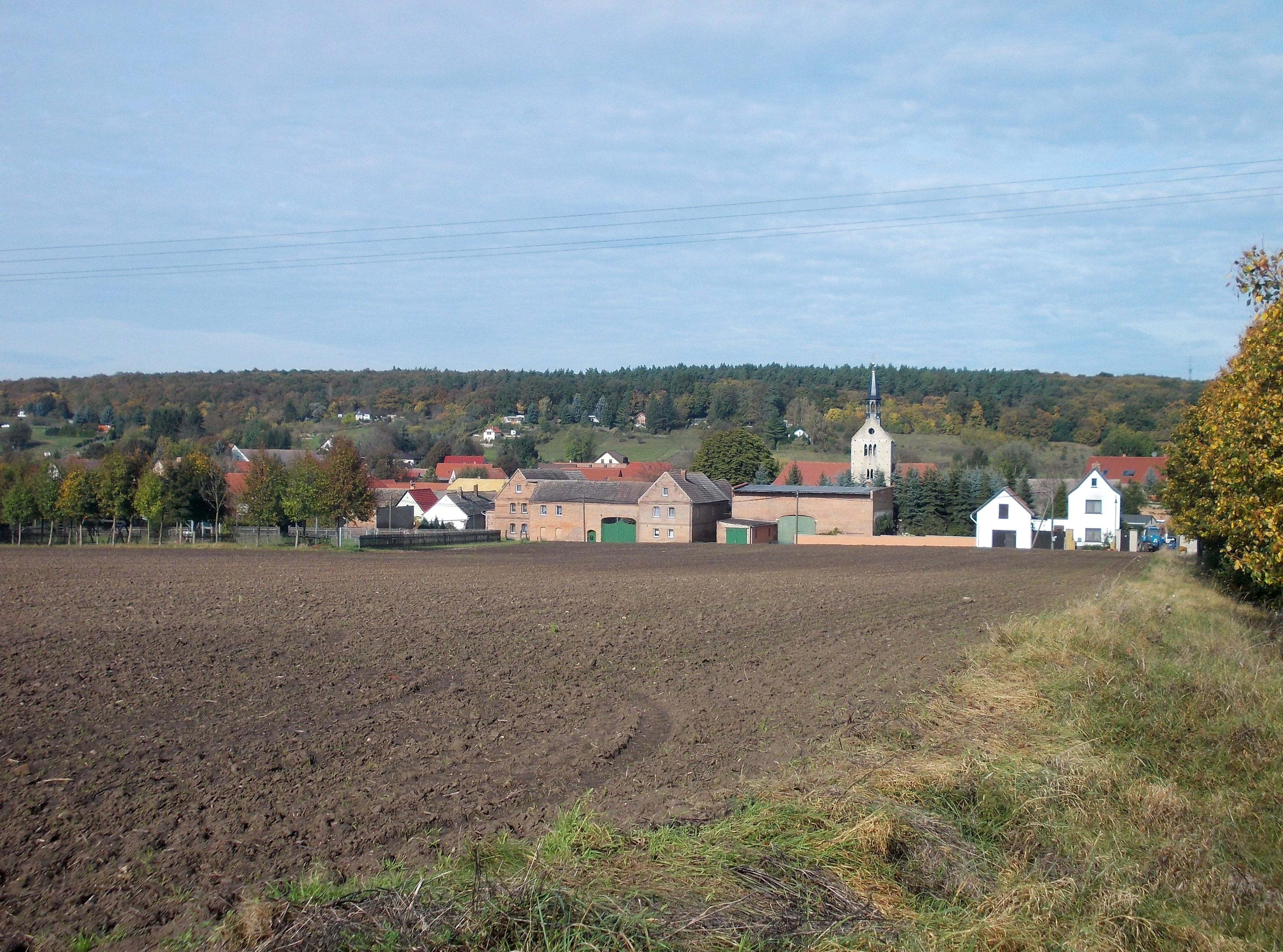 Pödelist (Freyburg/Unstrut, district: Burgenlandkreis, Saxony-Anhalt)